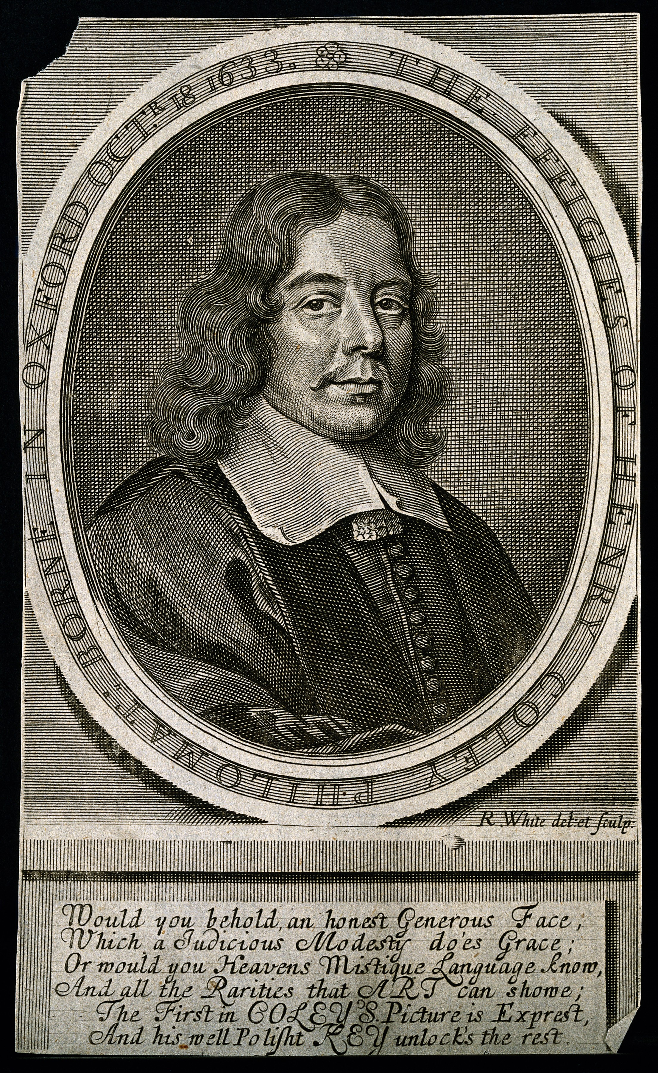 Henry Coley. Line engraving by R. White, 1676, after himself. Iconographic Collections Keywords: portrait prints; Edward Coley; coley, edward, 1633-1695?; engravings; Robert White